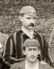 Somerset County Cricket team, circa 1892. Left to right, back row: Carpenter (umpire), Crescens Robinson, Arthur Edward Newton, Gerald Fowler, Anderton, Charles Dunlop, T Knight and Thomas (umpire); middle row: John Challen, Lionel Palairtet, Herbie Hewett, Walter Hedley and Ted Tyler; front row: George Nichols, Vernon Hill and Sammy Woods